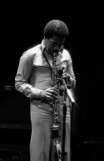 Convocation Hall, Toronto, Nov. 27, 1977